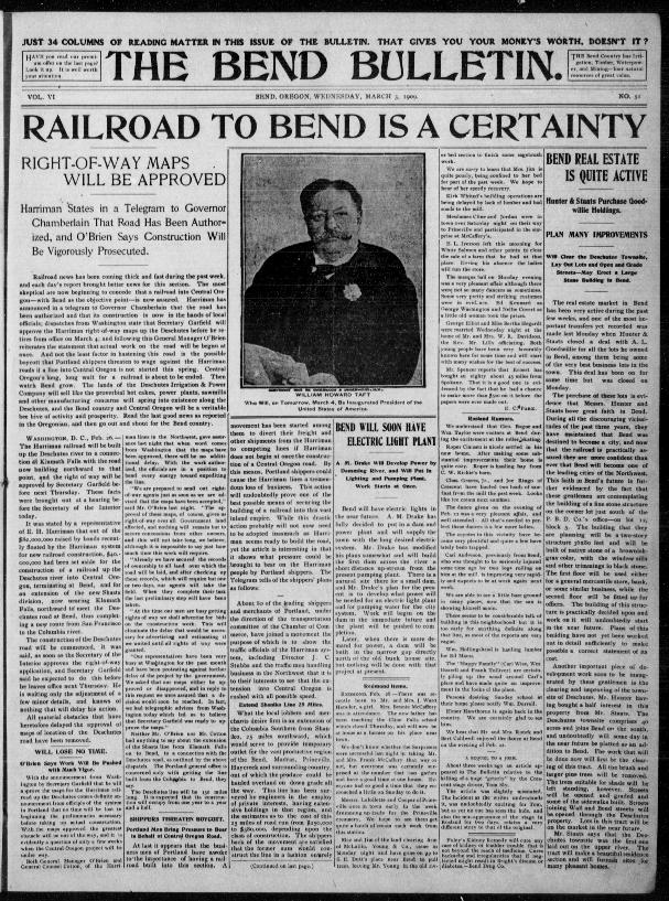 Front page of the Bend Bulletin newspaper published on 3 March 1909; headline announces that railroad is coming to Bend, Oregon.